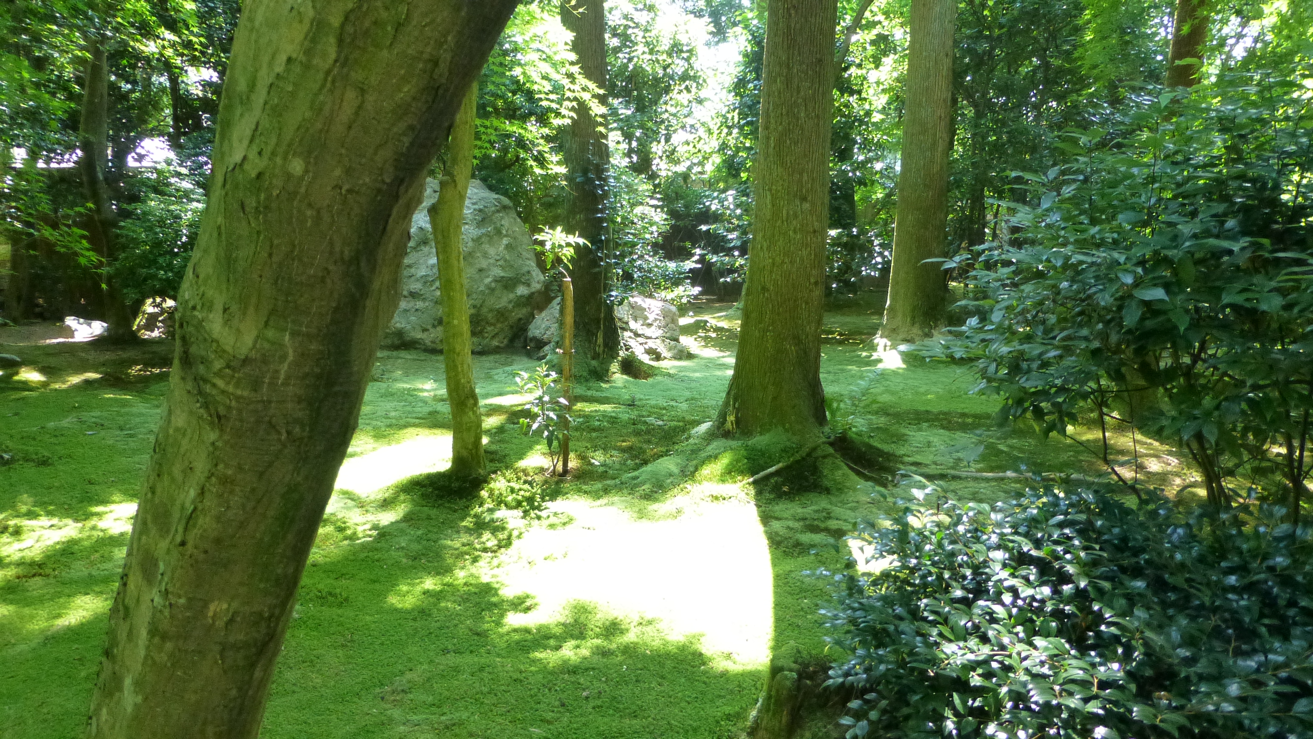 Jardin du temple du Ryoan-ji à Kytoto